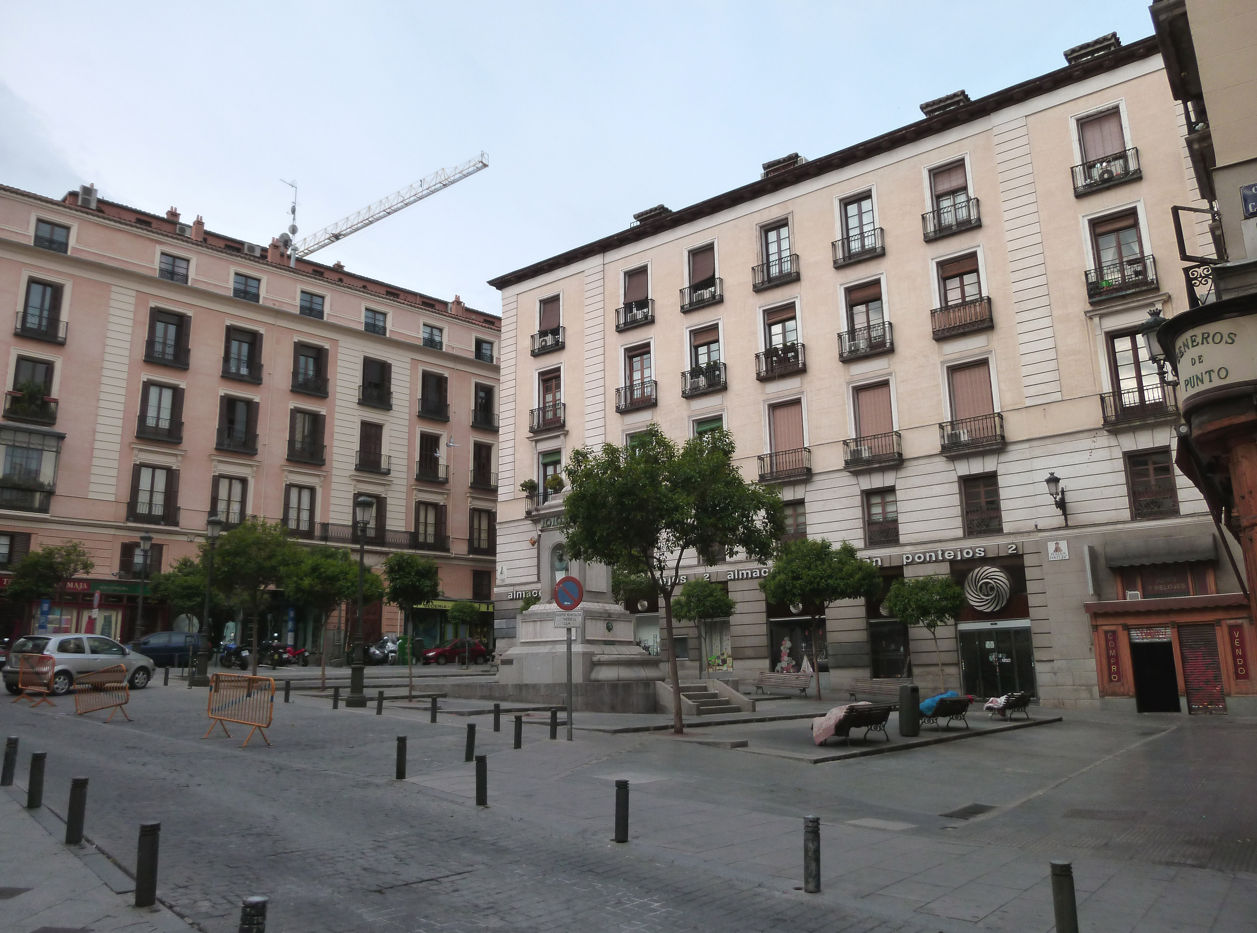 View of Plaza de Pontejos (a square) in Centro district in Madrid (Spain).